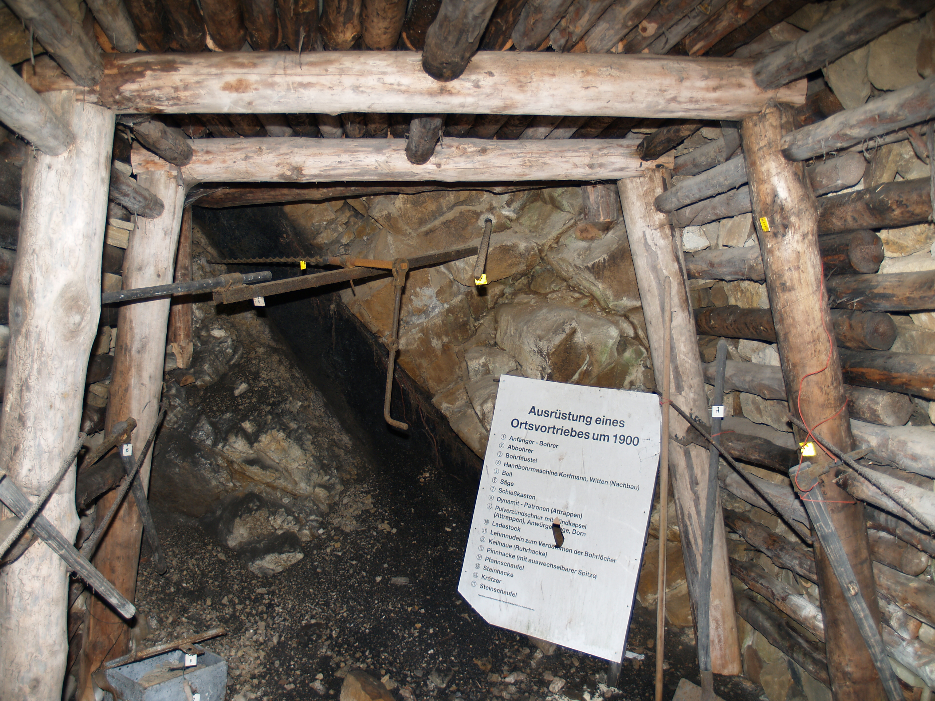 Coal mining in the Muttental, Witten, Germany; historic coal vein.